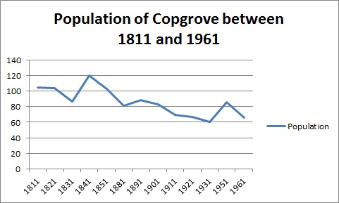 A graph showing the total population of the parish Copgrove recorded between the years 1811 and 1961